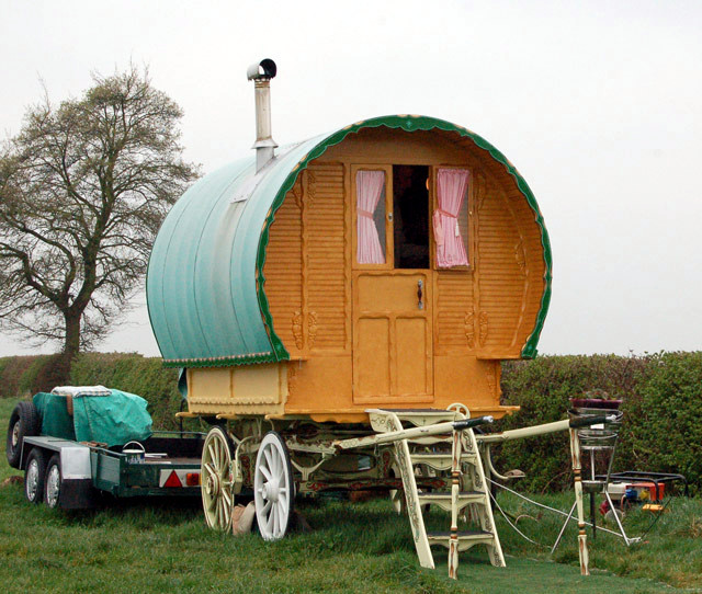 Gypsy wagon, Grandborough Fields The wide verge on the west side of Grandbourough Fields Road is a popular spot for travelling people. This traditional bowtop living van is quite uncommon - usually, the travellers who use this spot live in modern aluminium caravans. On the day the photo was taken there was no sign of any horses grazing the verge but a flatbed trailer behind the bowtop van suggests it arrived behind a motor vehicle.